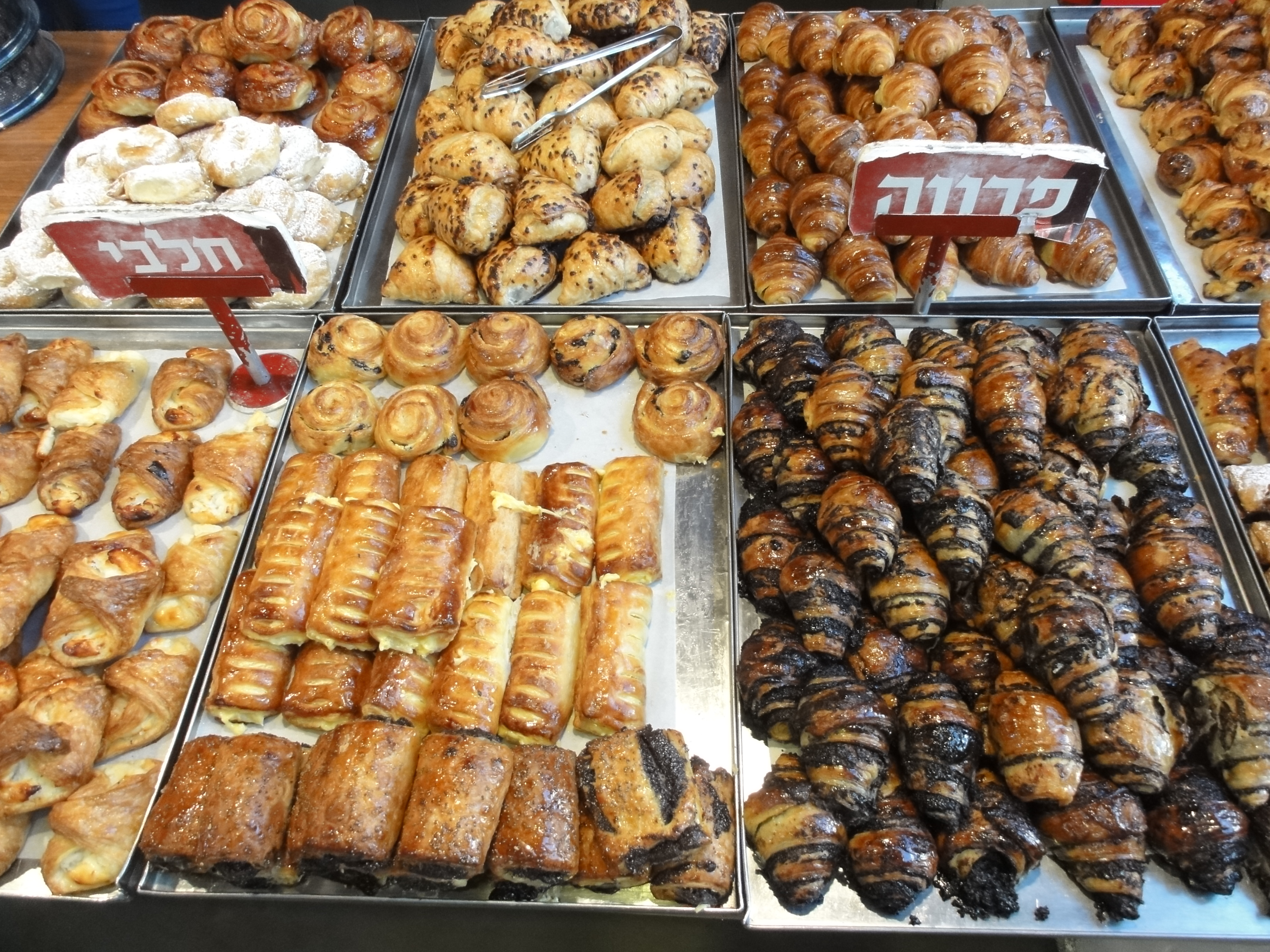 Jewish Pastry Info GPS data may be inaccurate. EXIF data regarding date and time may be inaccurate.